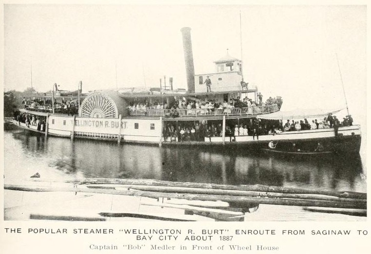 Picture of the sidewheel steamboat Wellington R. Burt ca. 1887, named for Wellington R. Burt. From page 716 of History of Saginaw County, Michigan (1918), by James Cooke Mills.